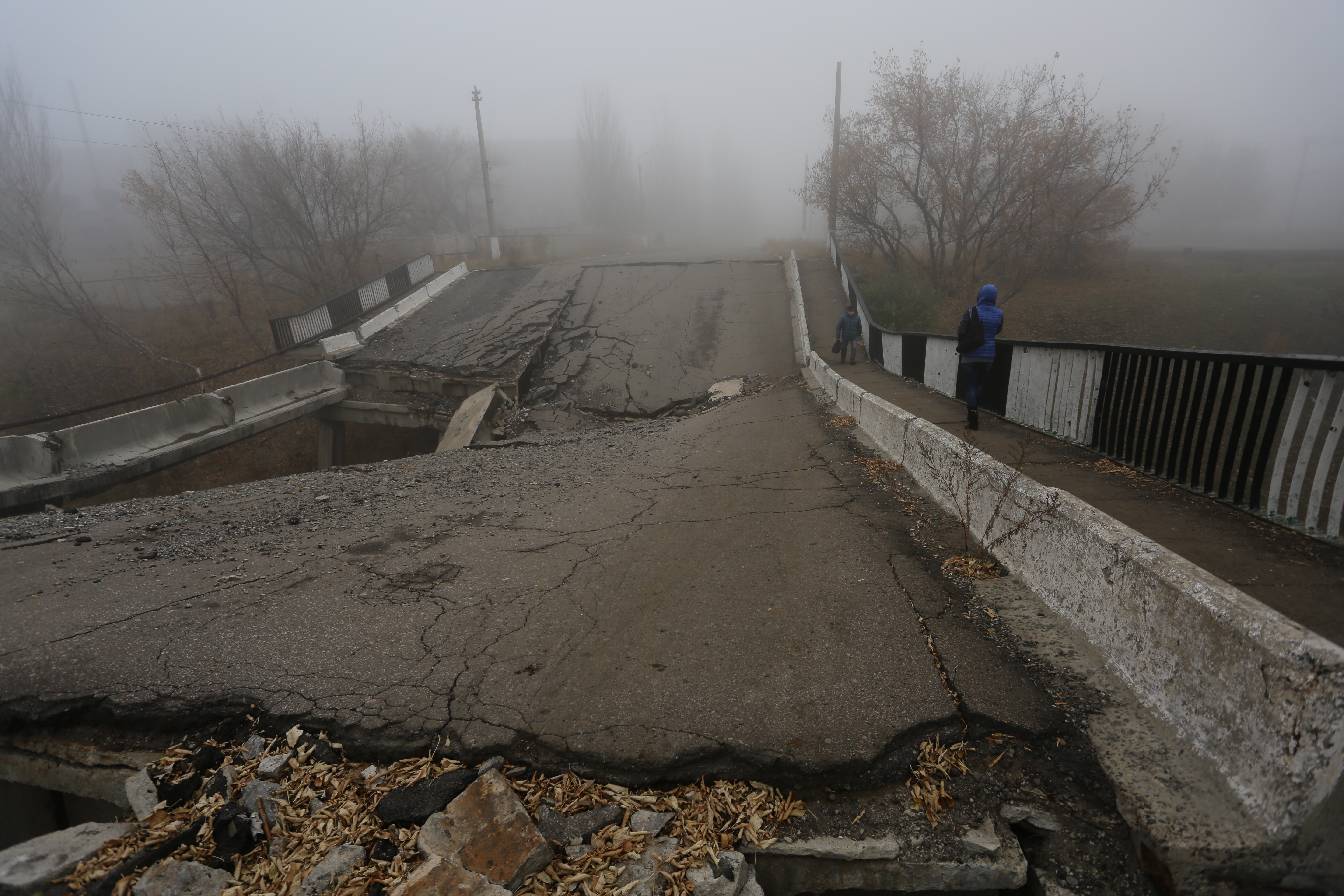 This bridge in Horlivka (Donetsk region) was destroyed during the shelling in June 2014. Damaged pipelines and infrastructure, as well as debris from destroyed bridges are hampering the flow of water, on which the central heating systems in eastern Ukraine rely. ©UNICEF Ukraine/2015/Alexey Filippov